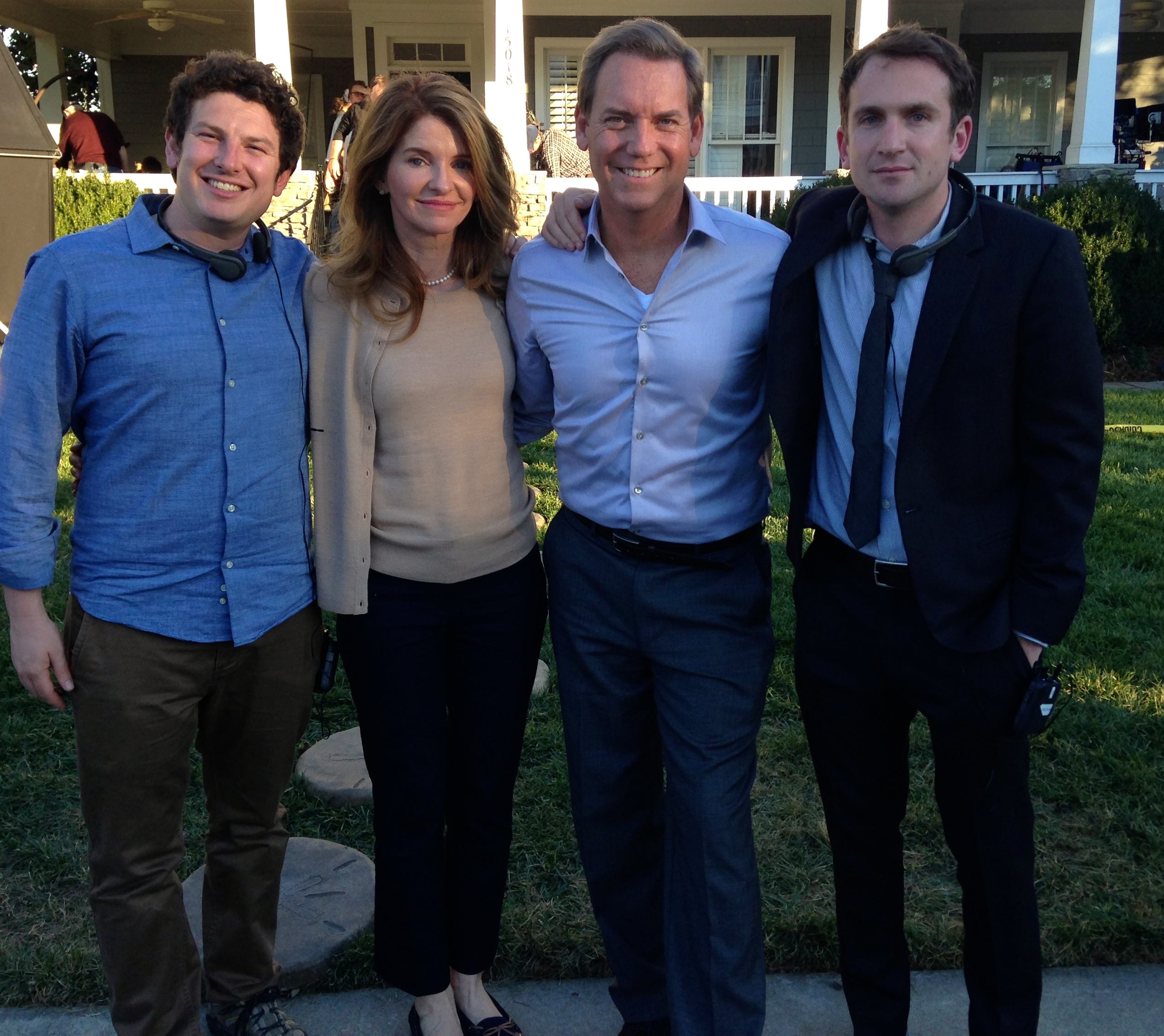 Isaac Klausner (producer), Susan Macke Miller (Mrs. Spiegelman), Tom Hillmann (Mr. Spiegelman) Jake Schreier (director) on the set of "Paper Towns"